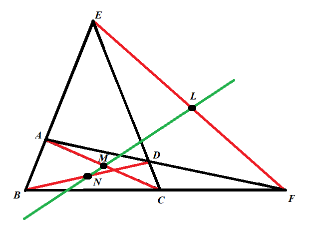 Newton-Gauss Line